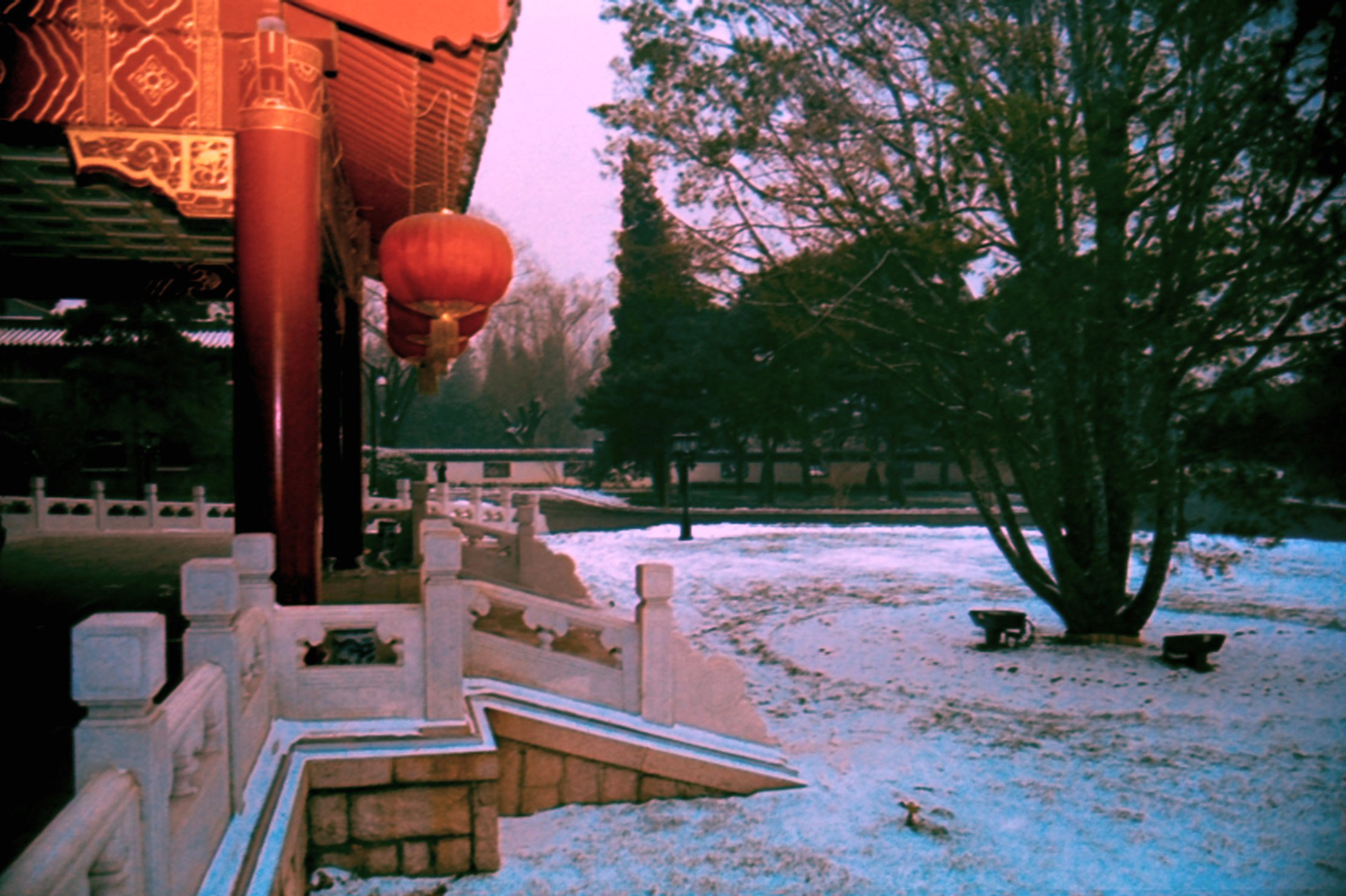 The Diaoyutai in Beijing, a famous hotel and state guesthouse.